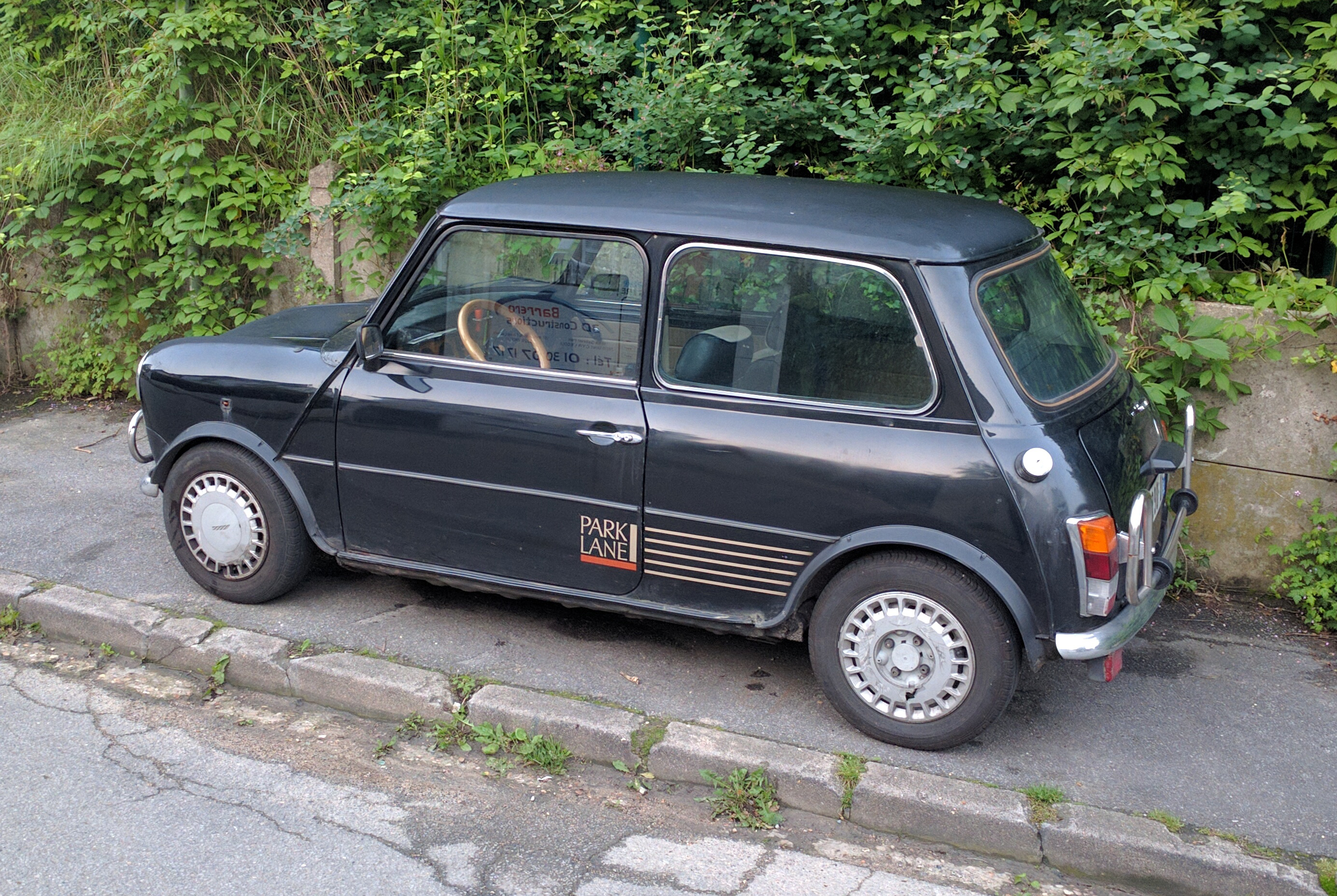 Mini Park Lane limited edition model